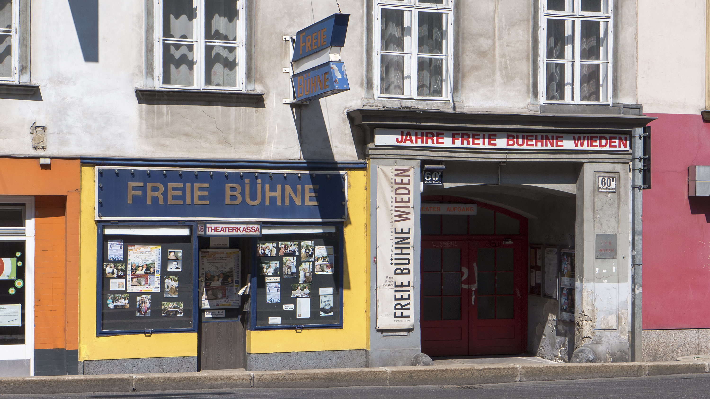 Theater Freie Bühne Wieden in Vienna 4